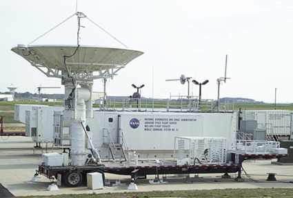 NASA Wallops Flight Facility Mobile Range Systems